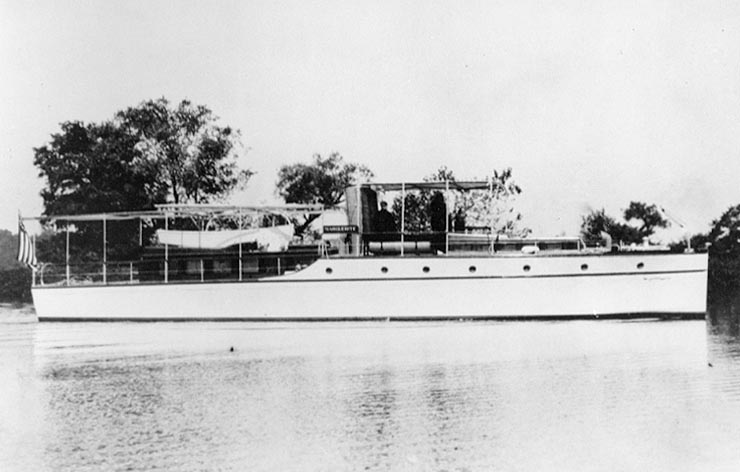 Motorboat Marguerite prior to her United States Navy service as patrol vessel USS Marguerite (SP-193) Original photo label: Photo# NH 101981 Motor boat Marguerite, which was USS Marguerite (SP-193) in 1917-19